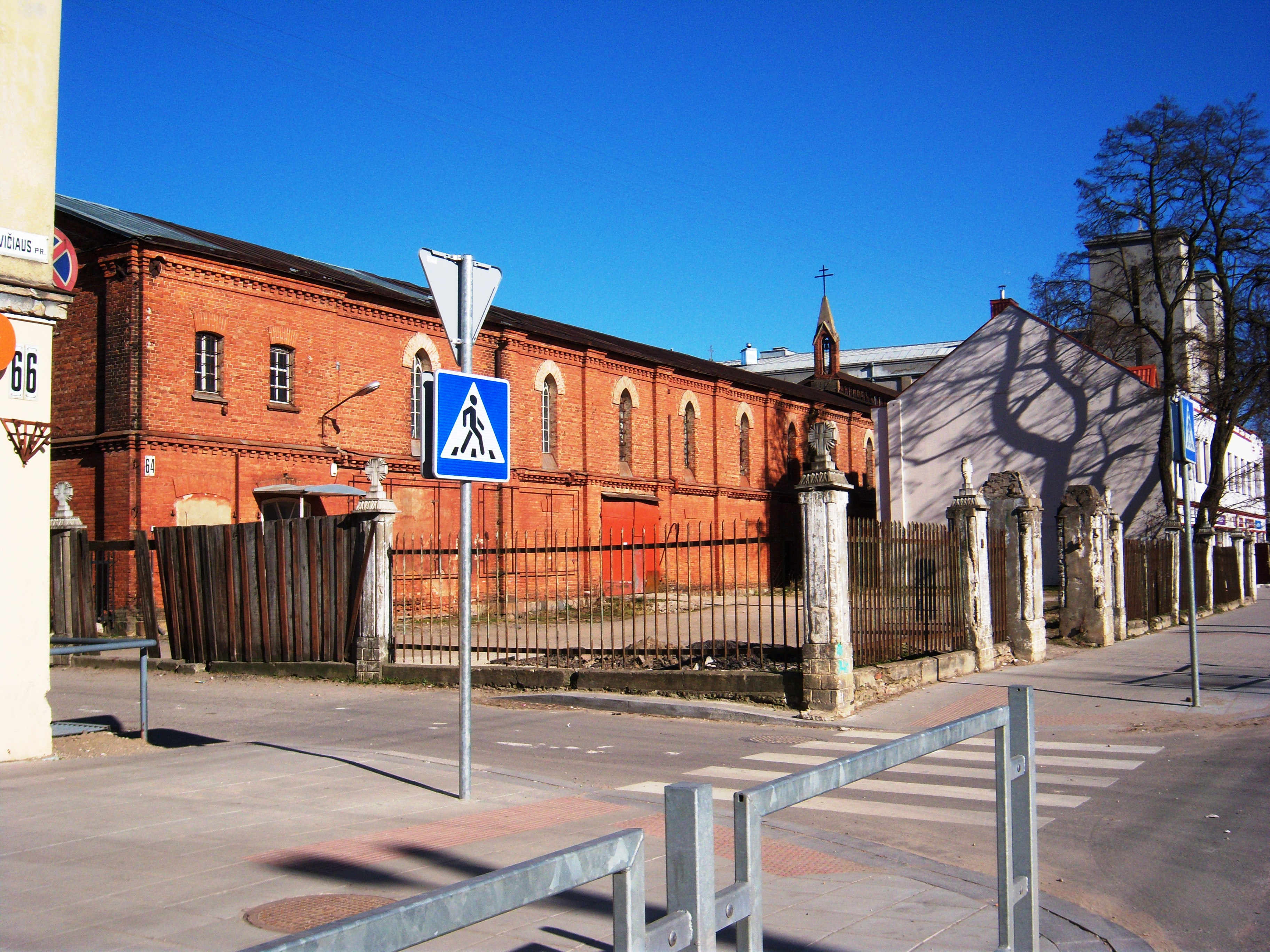 First Roman Catholic Church in Šančiai, Kaunas, Lithuania